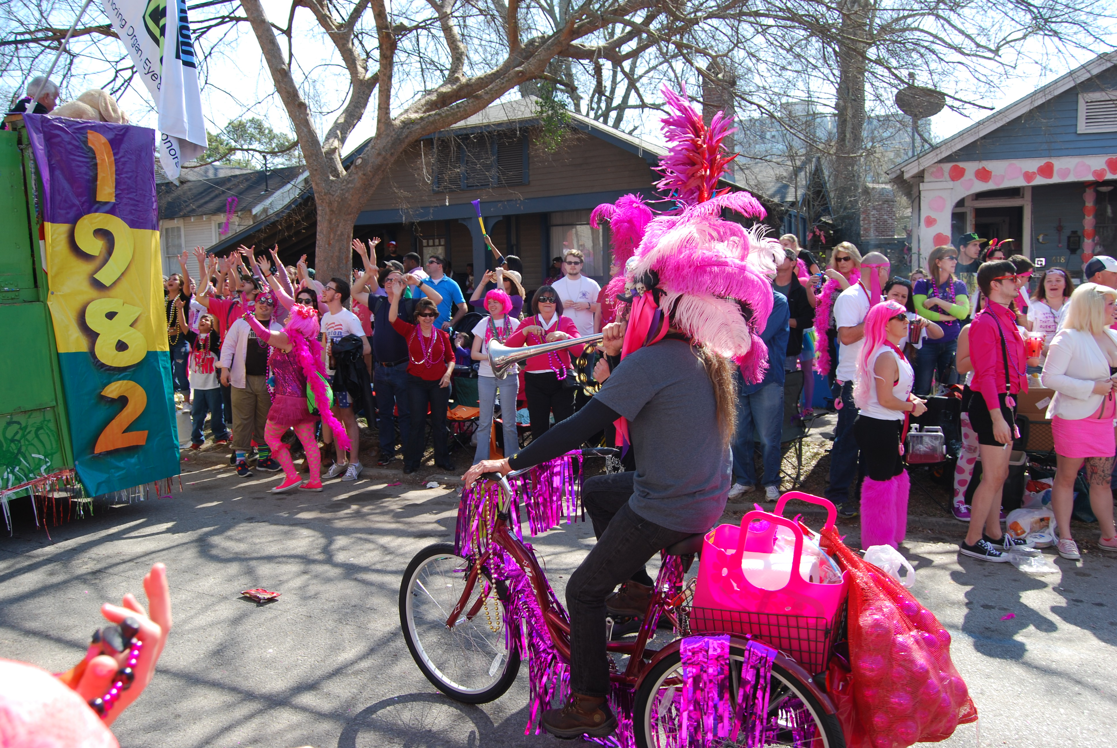 Mardi Gras celebrations in the Spanish Town section of Baton Rouge, Louisiana.